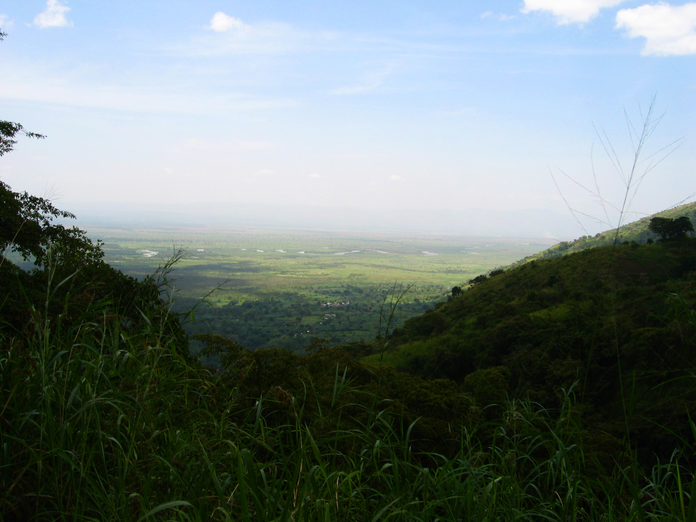 View of the Western Rift Valley and the twisting Semliki River, Uganda